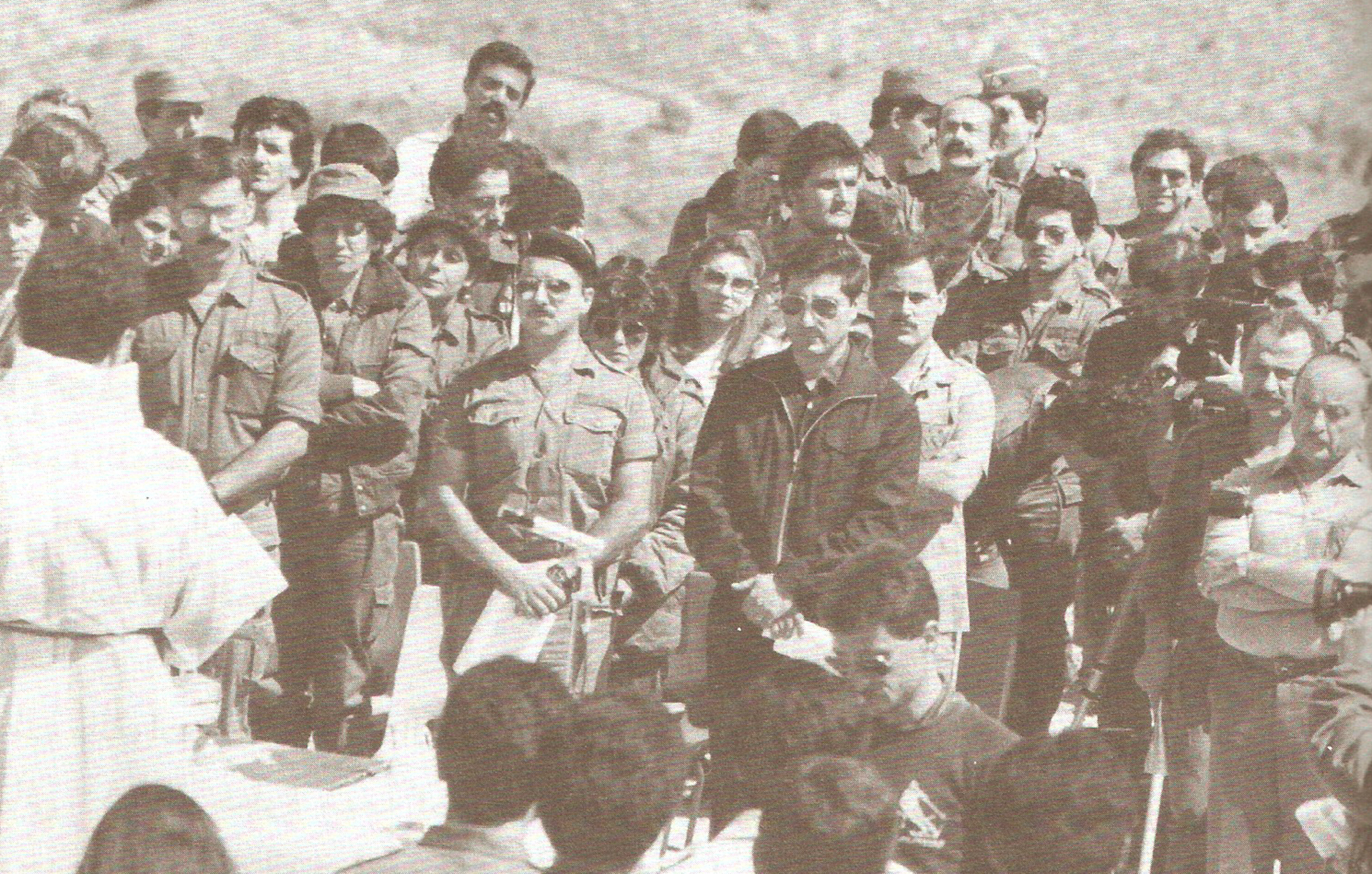 Bachir Attending Mass At A Training Camp with the Lebanese Forces Soldiers